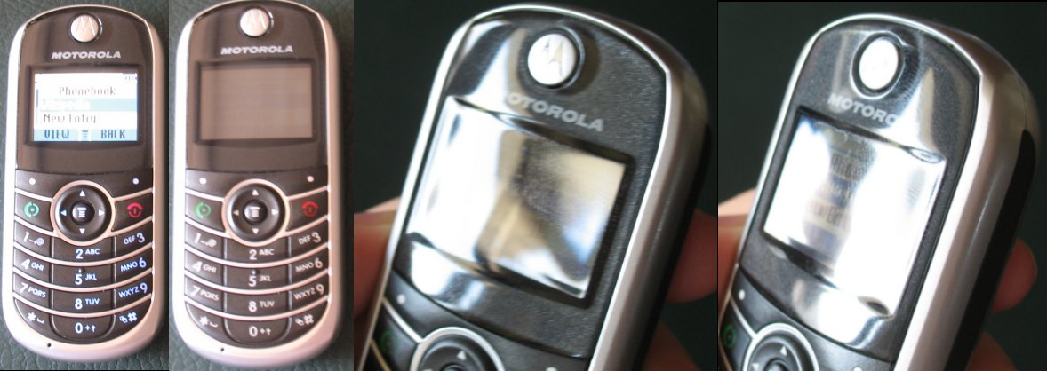 This is a demonstration of the severe screen glare problem with the Motorola C139. The screen is only readable when the backlight is turned on, and you can't trigger the backlight without pressing a button that changes whatever you were last doing with the phone. With the backlight off, there are no other status or power indicators so it is very hard to tell if the phone is actually on or off. This is a collection of photos I took, of my Tracfone TFC139B, which is Tracfone's variant of the Motorola C139 series. -- Dale Mahalko, Gilman, WI, USA